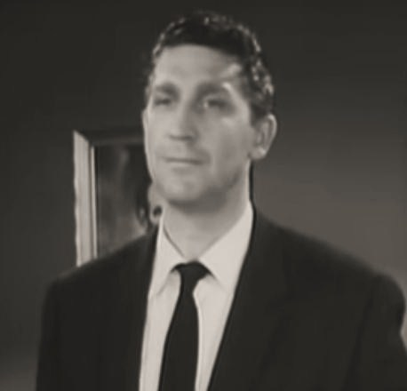 Peter Leeds in High School Big Shot - cropped screenshot